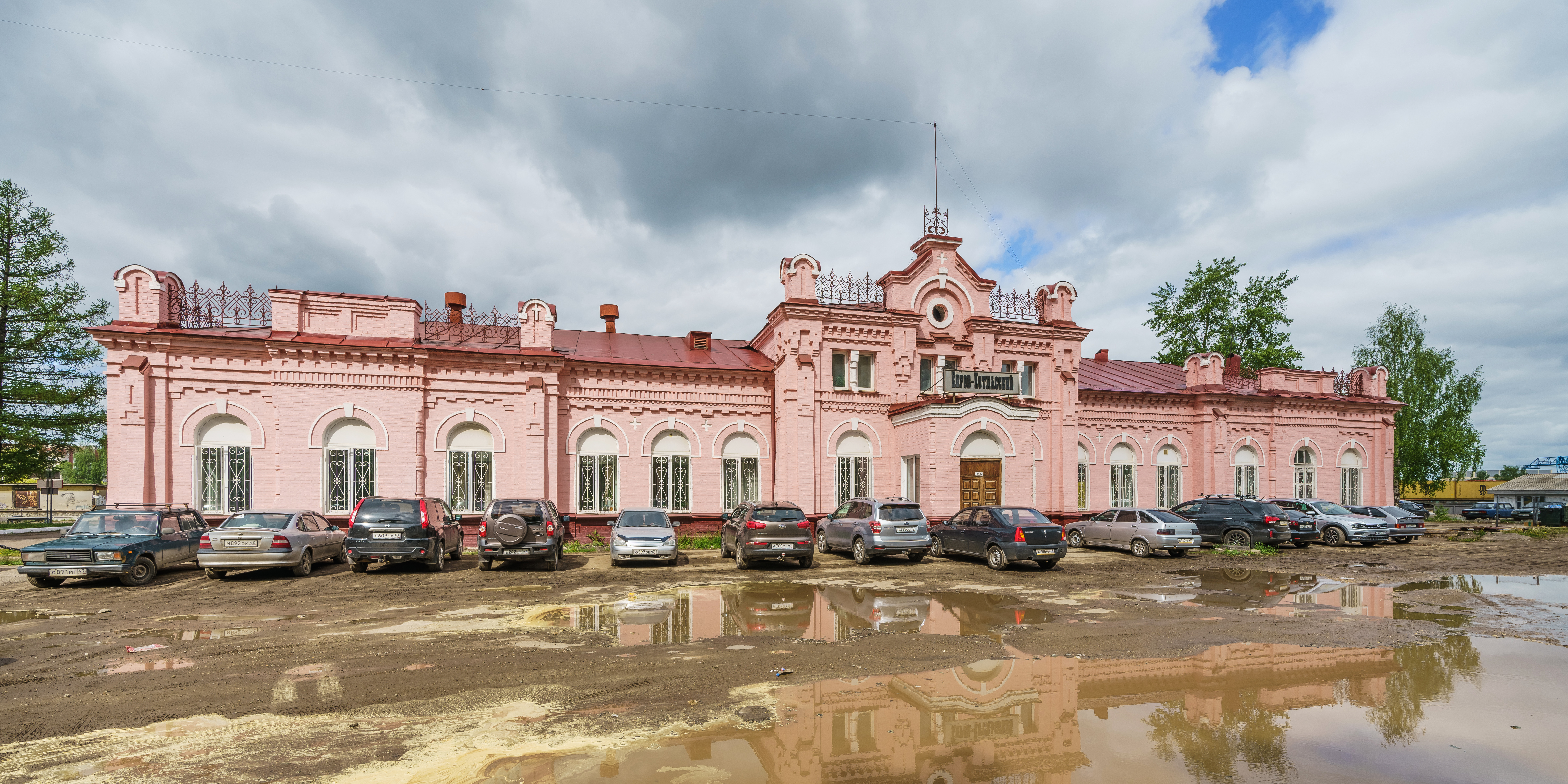 Kotlassky railway station in Kirov, Russia